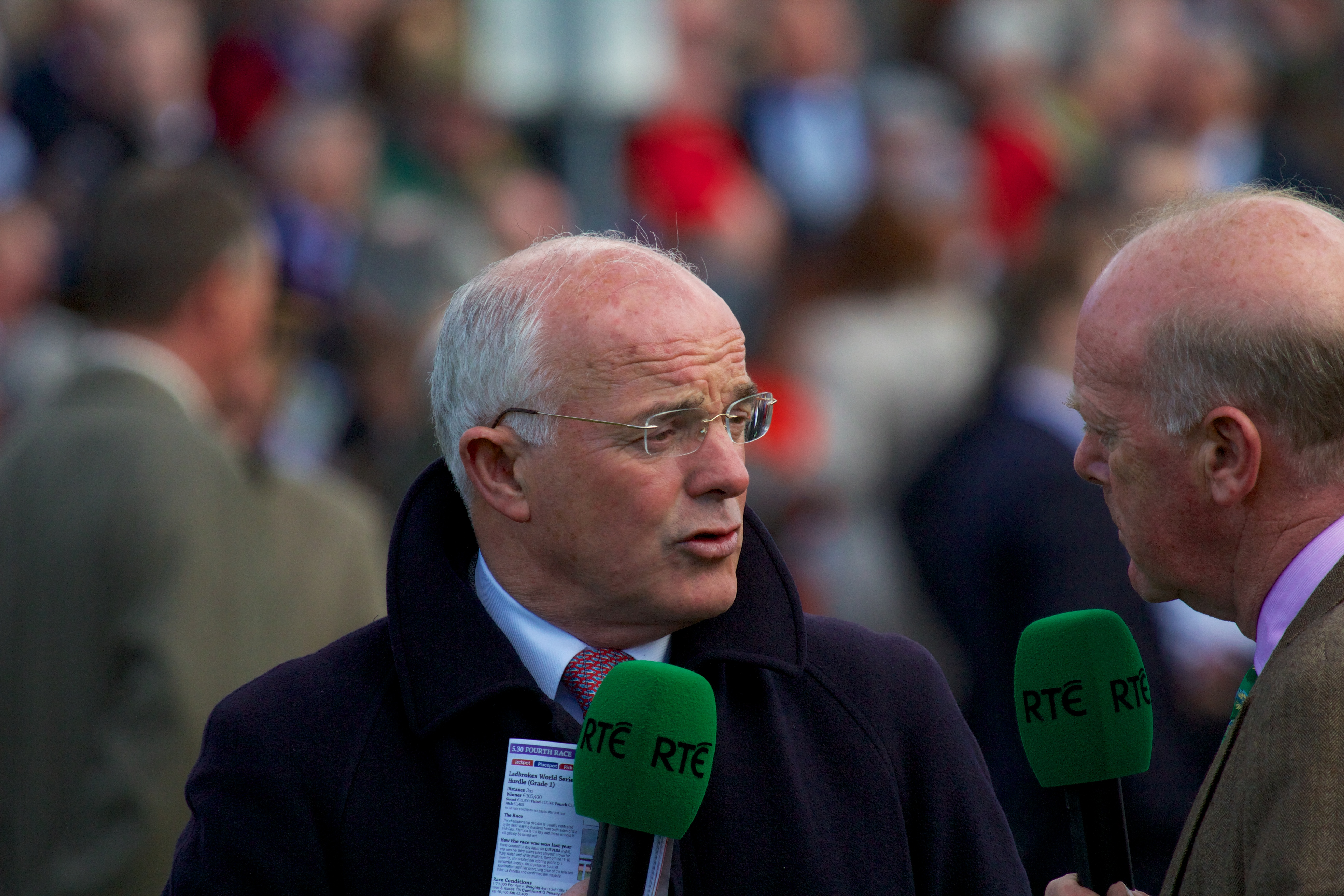 Ted Walsh in 2013